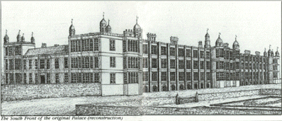 Hodenby House. Old Print. Public domain by virtue of age